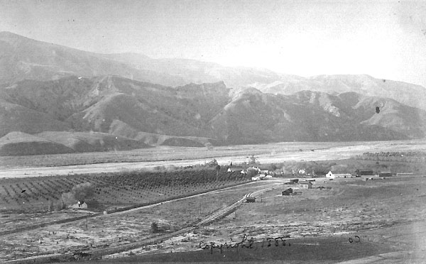 Aerial view of Rancho Camulos (near Piru, USA), with vineyards on the left and the Santa Clara River in the background.